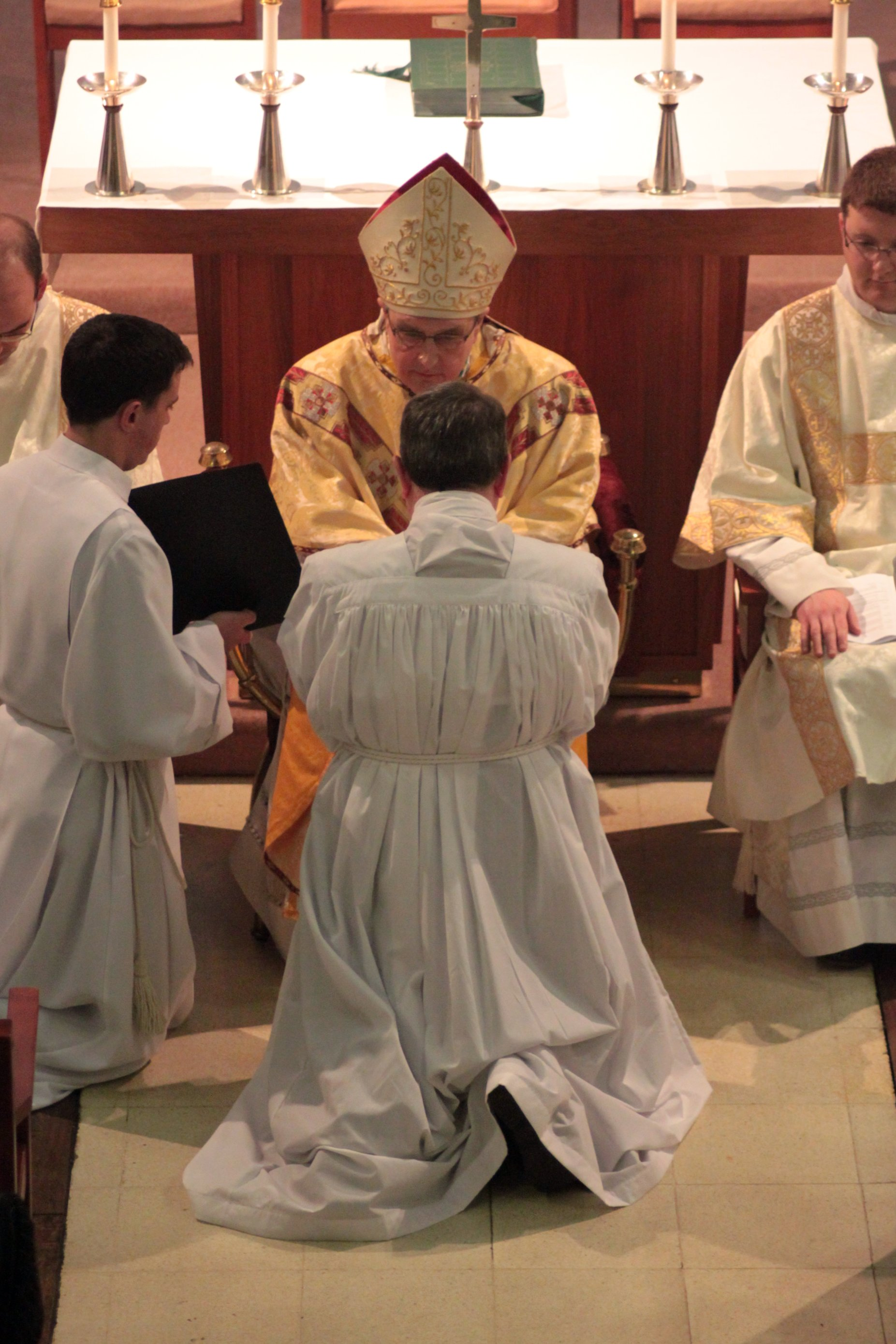 Keith Newton makes his promise of obedience to auxiliary bishop Alan Hopes